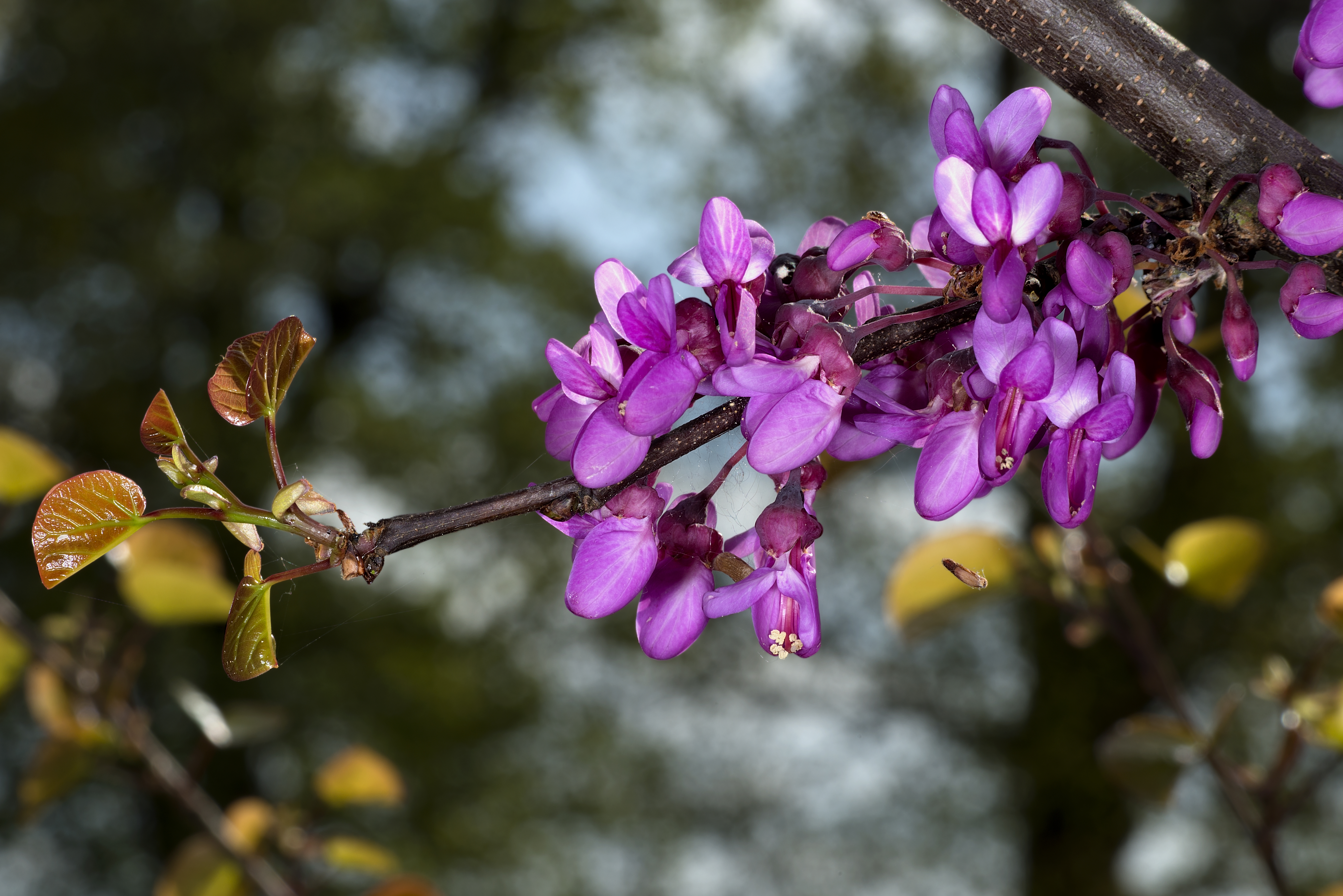 Flowers and Leaves of Judas tree.